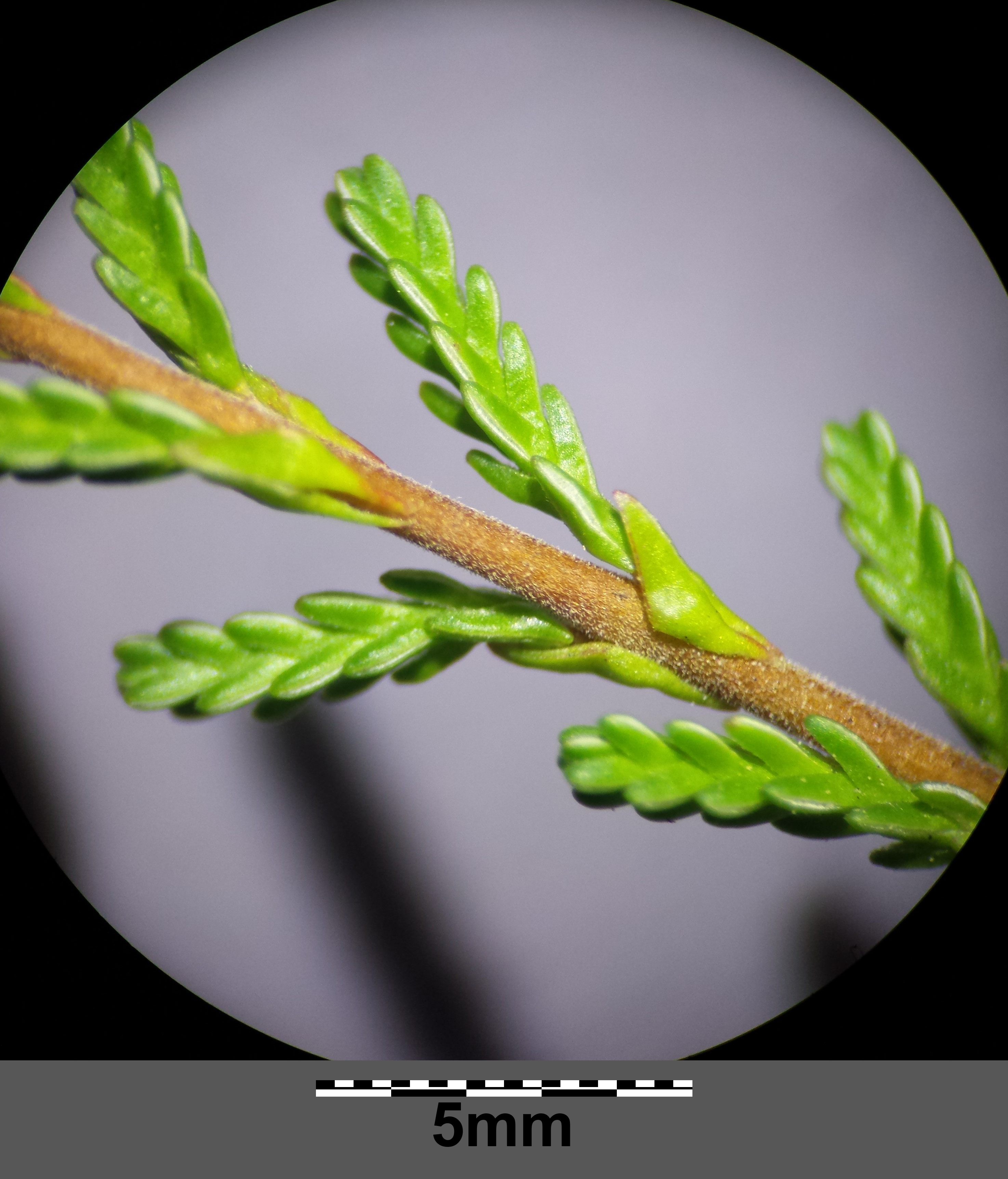 Stipe with leaves Taxonym: Calluna vulgaris ss Fischer et al. EfÖLS 2008 ISBN 978-3-85474-187-9 Location: near Altmelon, district Zwettl, Lower Austria - ca. 900 m a.s.l. Habitat: slope